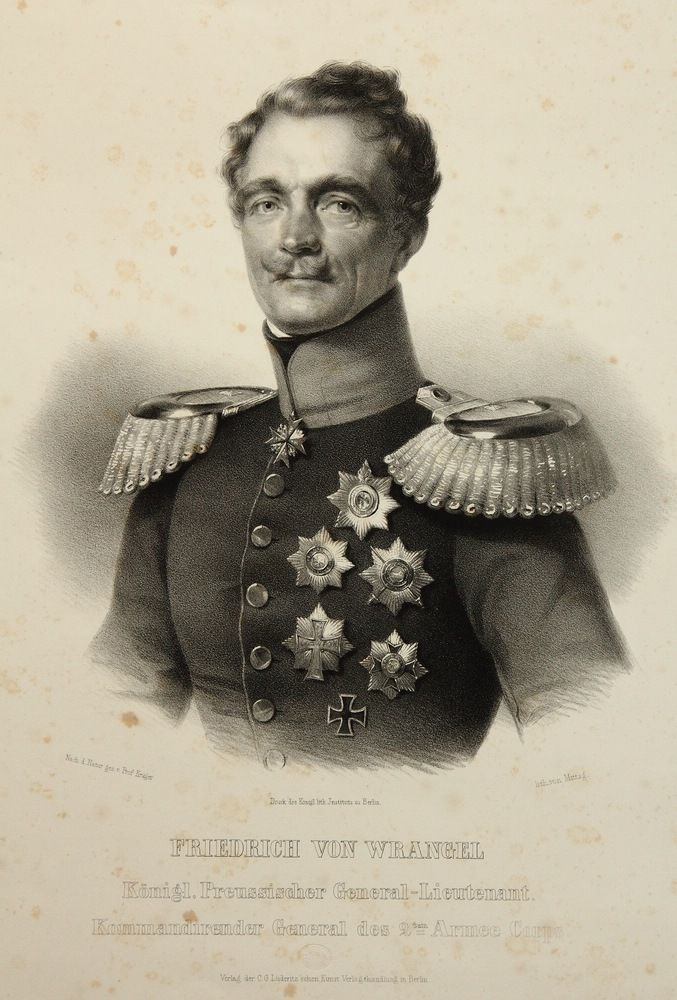 Portrait of Prussian Generalfeldmarschall (Field Marshal) Friedrich von Wrangel as Lieutenant-General and commander of 2nd Army corps, about 1845